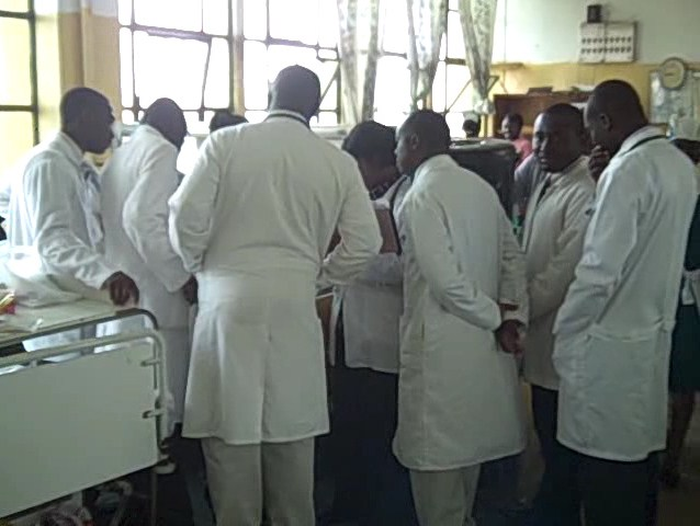 Ghanaian Medical Doctors – Ward rounds at Komfo Anokye Teaching Hospital in Kumasi.